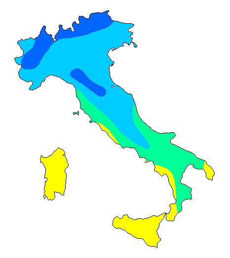 Map of daily sunshine hours in Italy in September